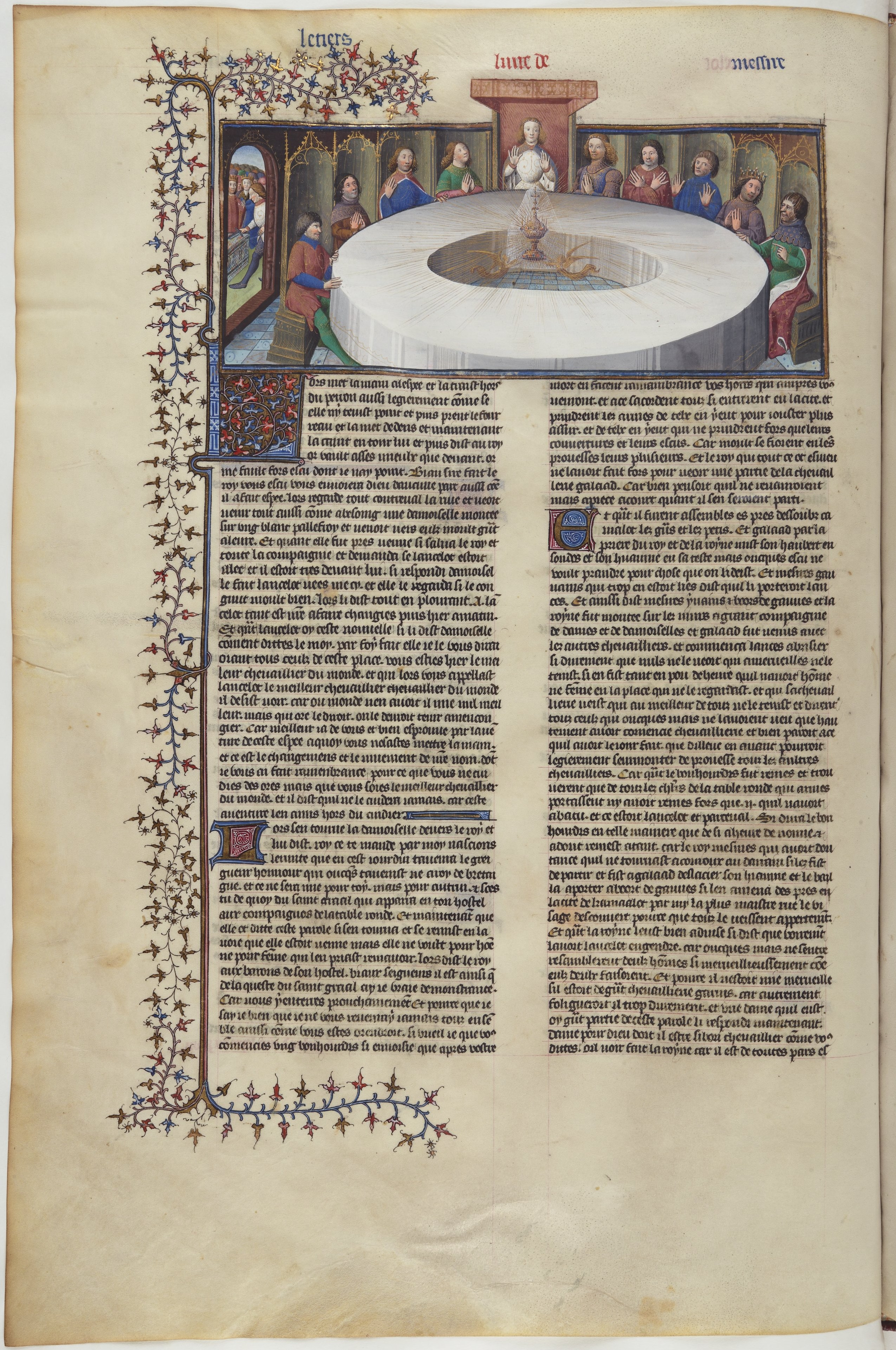 King Arthur's knights, gathered at the Round Table to celebrate the Pentecost, see a vision of the Holy Grail. The Grail appears as a veiled ciborium, made of gold and decorated with jewels, held by two angels. From a manuscript of Lancelot and the Holy Grail.